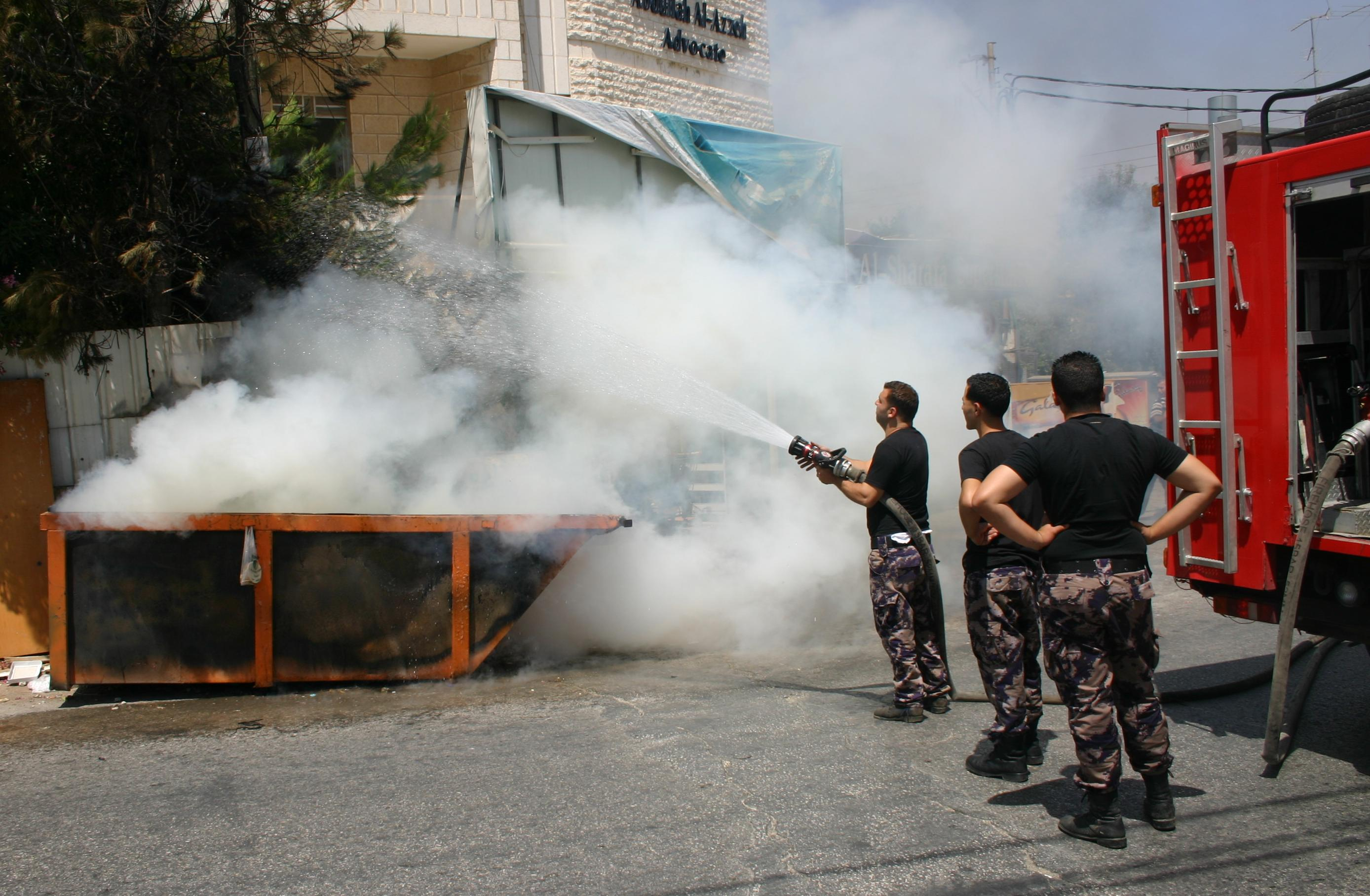 Fire in a dumpster in Al-Bireh/Sharafeh